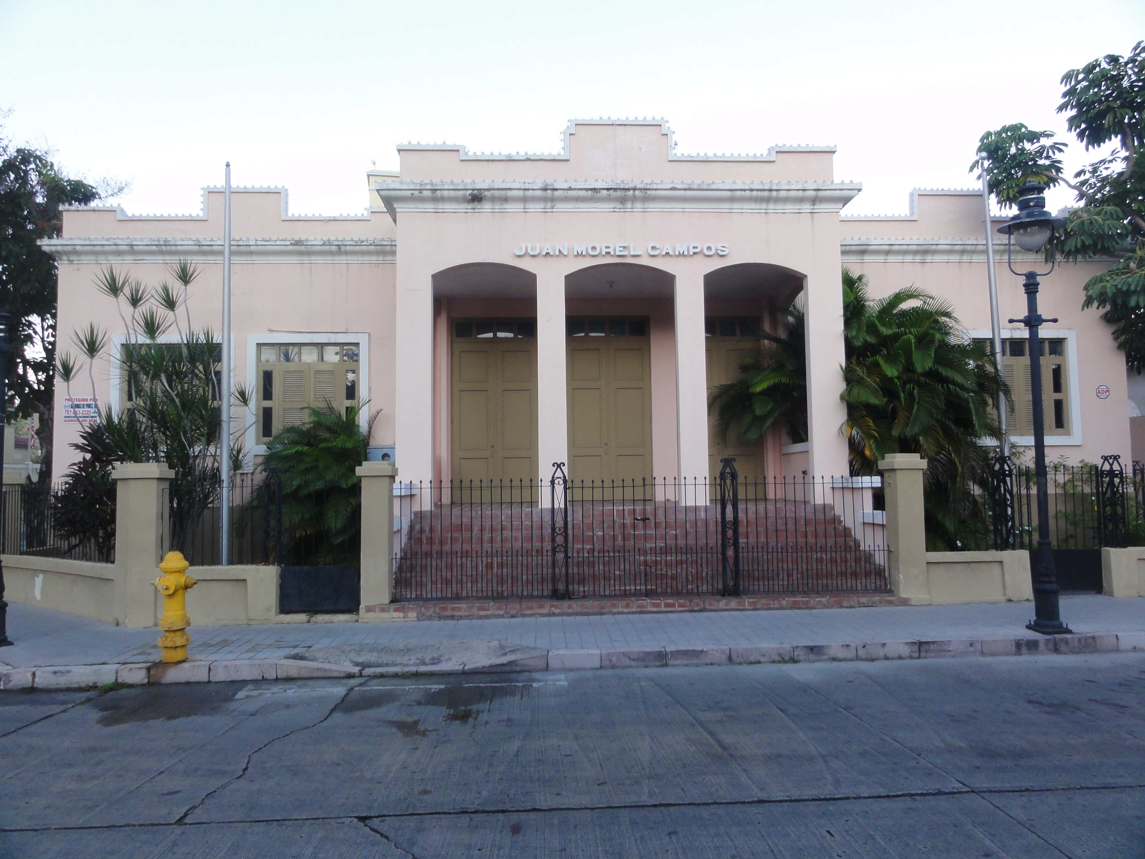 Edificio Juan Morel Campos, Antigua Sede Escuela de Música de Ponce, en la esquina noroeste de las calles Salud y Cristina, Ponce, Puerto Rico (5017)